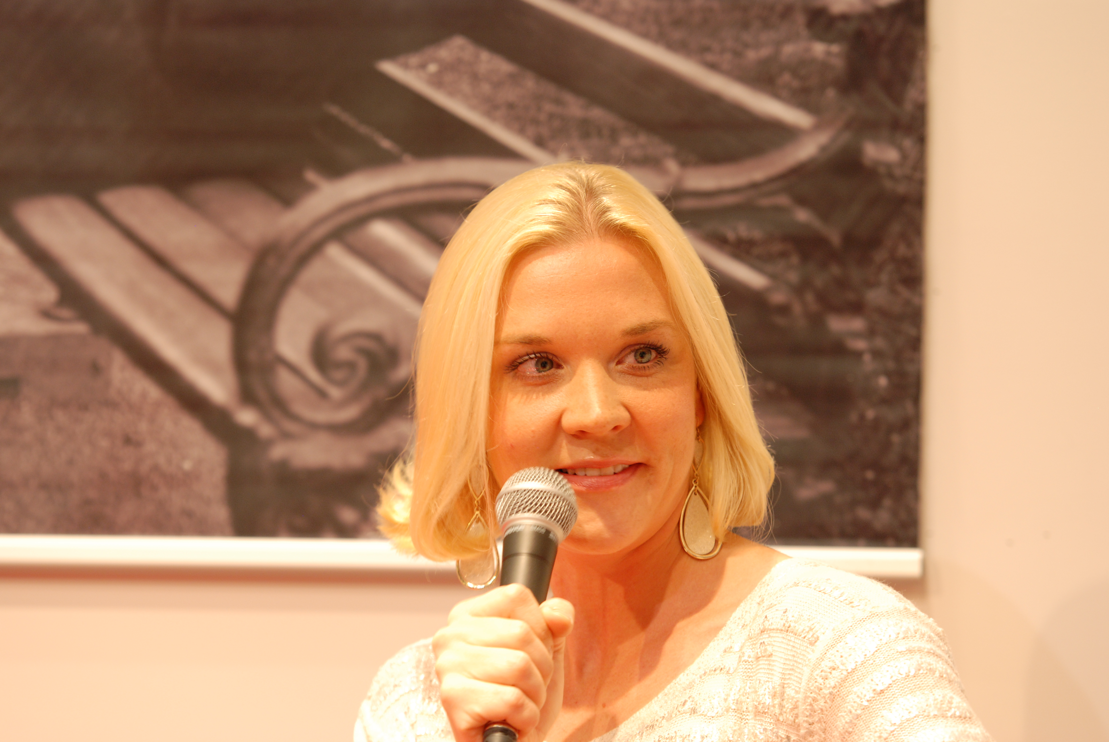 Finnish-Swedish writer Johanna Holmström at Göteborg Book Fair 2013.